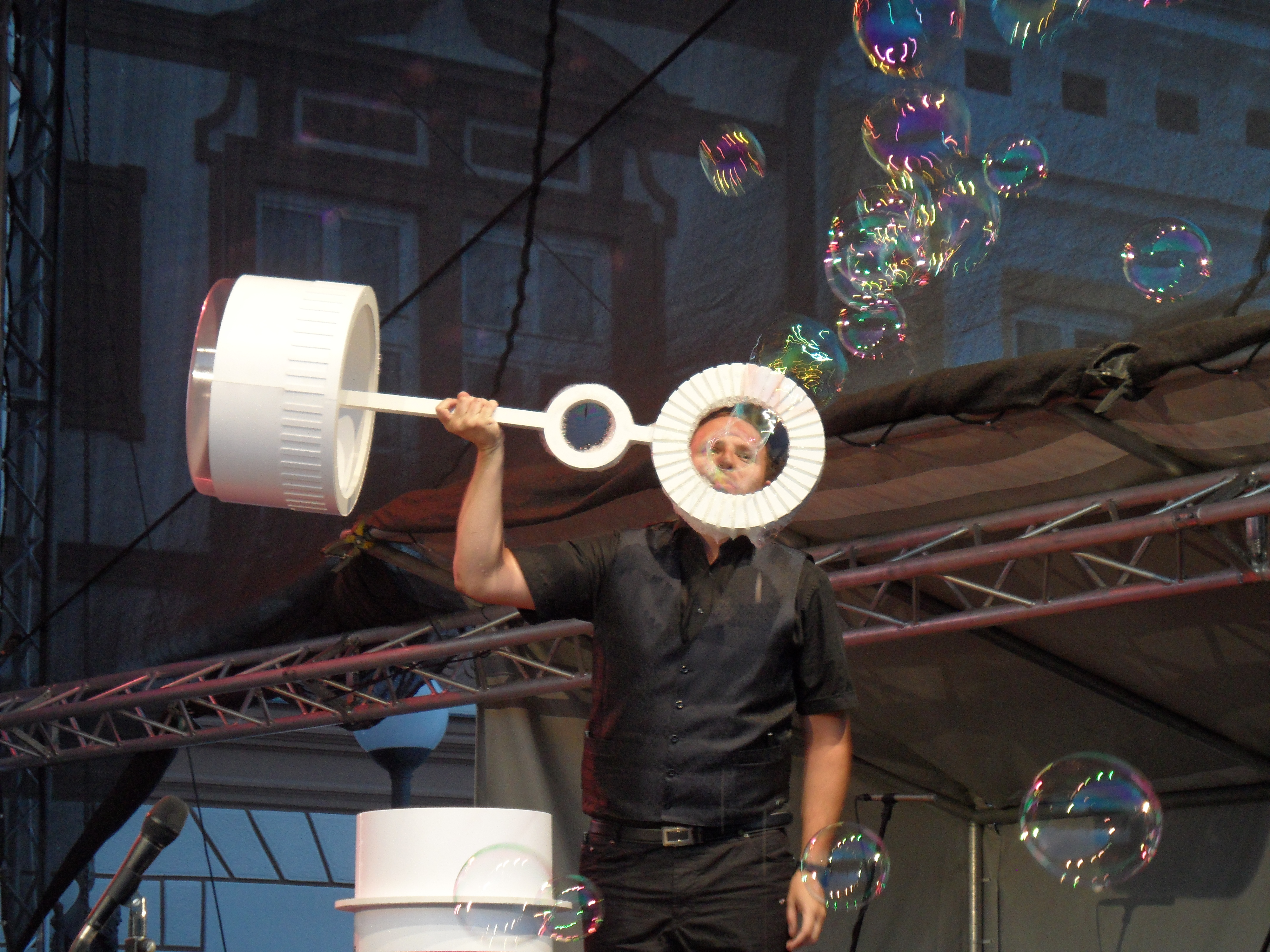 Festival Pelhřimov – the City of Records 2017, Evening Programme: Bubble Show of World Champion Matěj Kodeš: the Largest “bublifuk” (140 cm). Pelhřimov District, the Czech Republic.